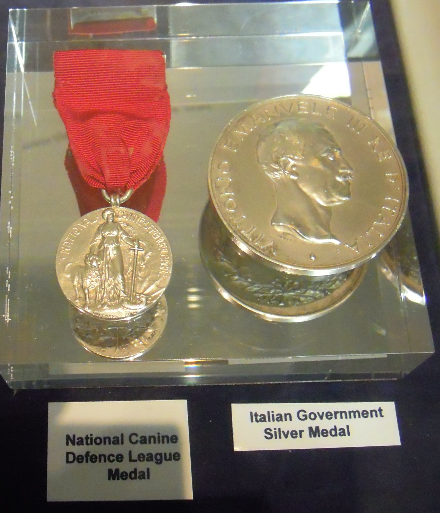 Henry Blogg's Silver Cainine Defense League medal and the Silver Medal awarded to him by the Italian Govenment for his part in the rescue of the cargo ship the Monte Nervoso on th 14th October 1932. These medals are on display in the Henry Blogg Museum, Cromer, Norfolk